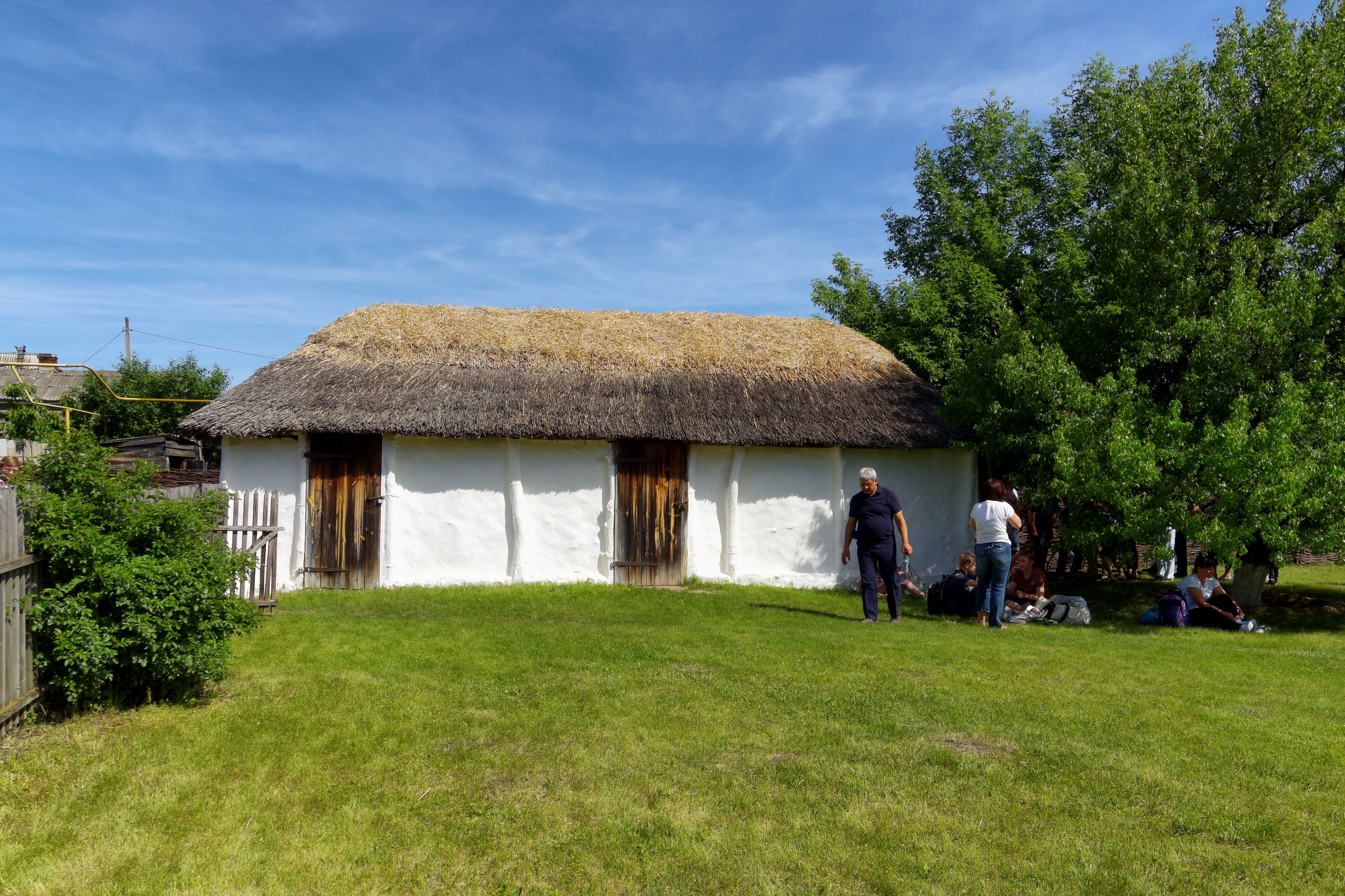 Vyoshenskaya. Mikhail Sholokhov House Museum